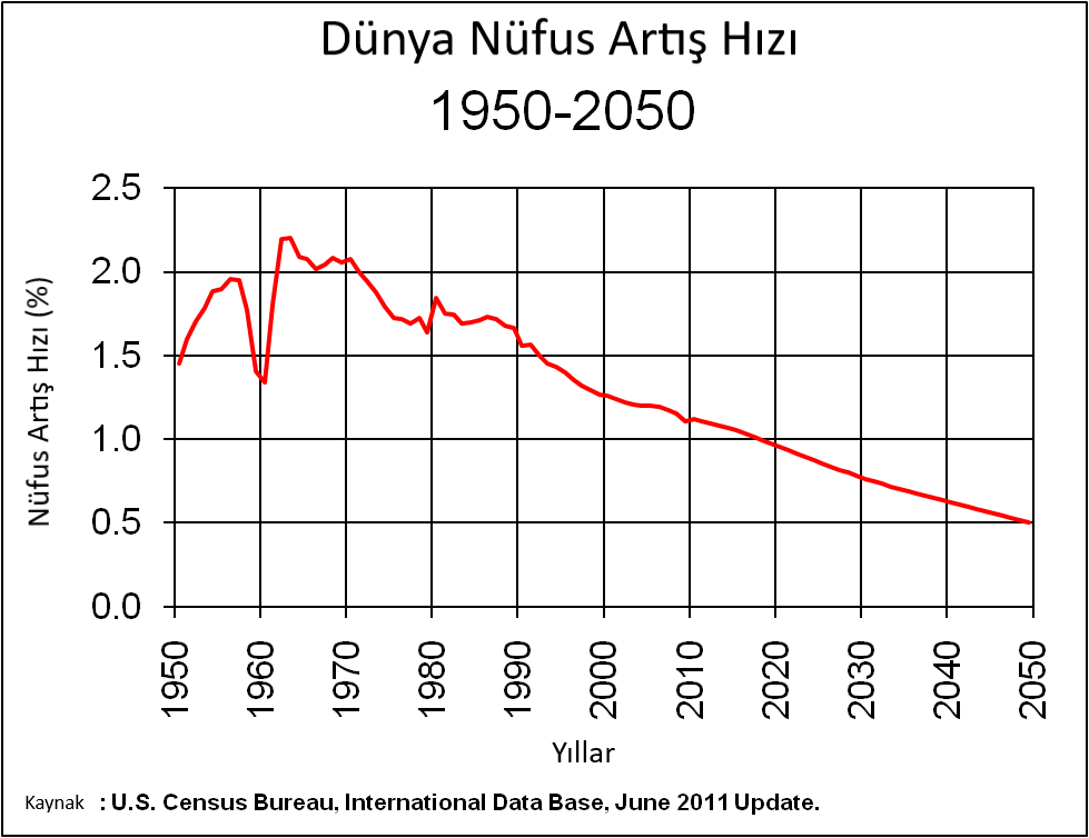 Turkish Translation of the File:WorldPopGrowth.png by U.S Census